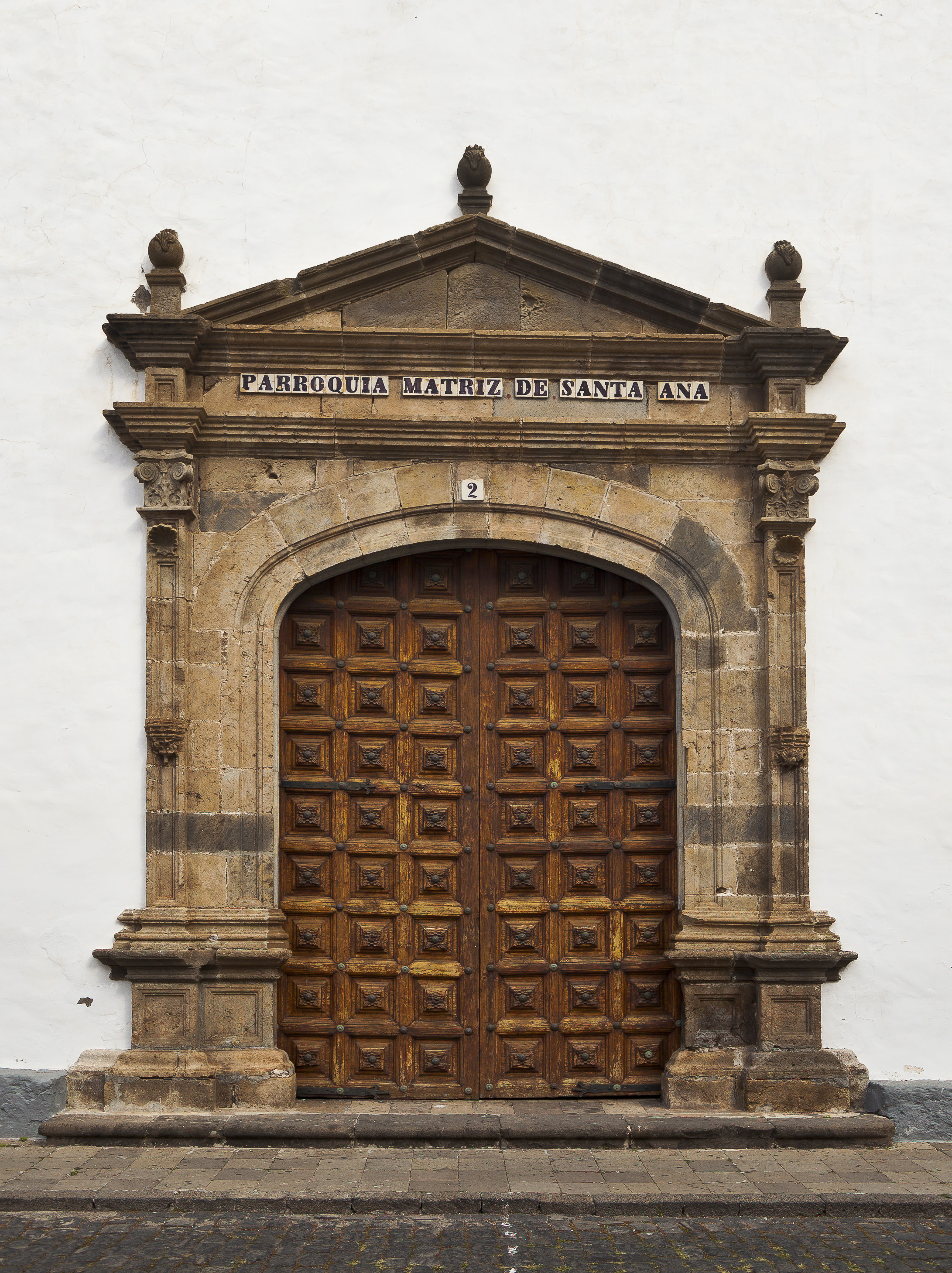 Church Santa Ana, Garachico, Tenerife, Spain